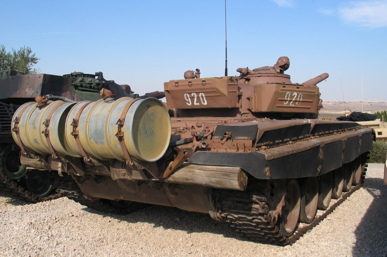 Description: T-72 MBT in Yad la-Shiryon Museum, Israel. Source: Photo by me, User:Bukvoed